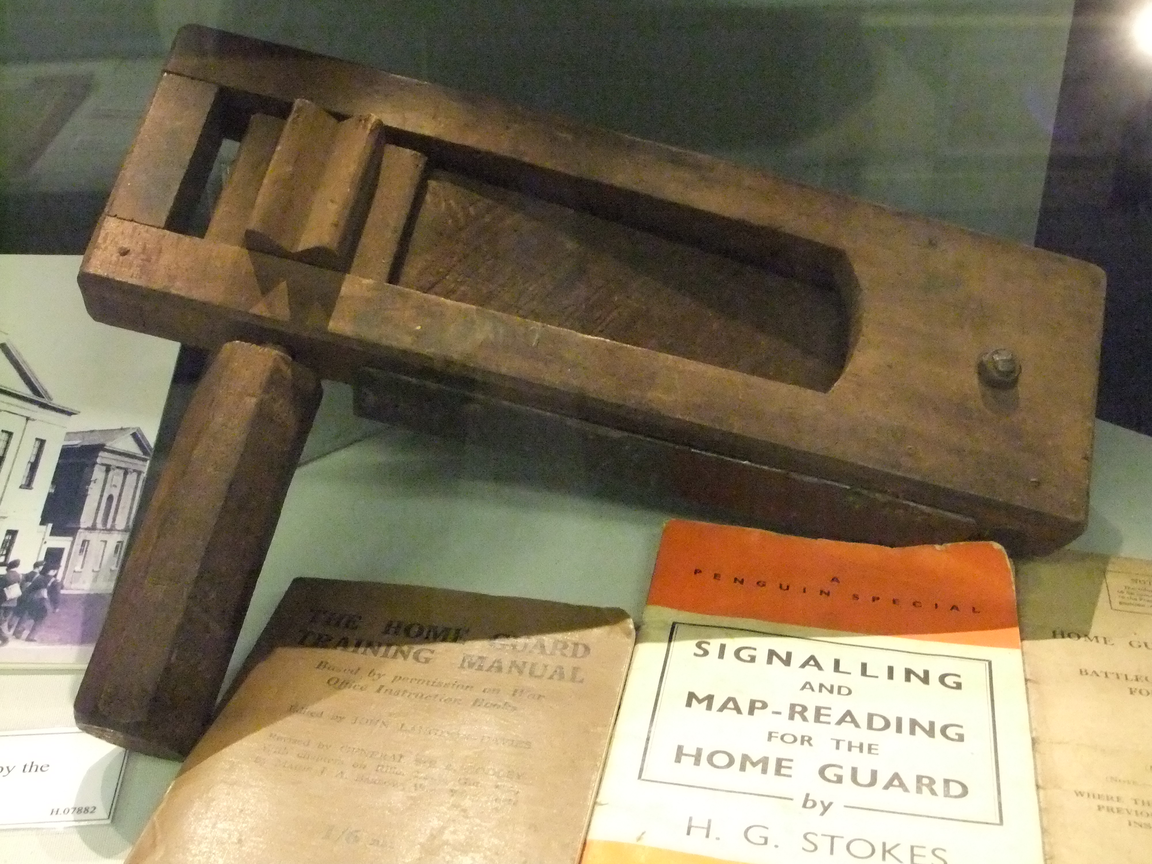 WWII Hand rattle used to alert people to a gas attack. Photo taken at Ludlow Museum, Castle Street, Ludlow, Shropshire, England.